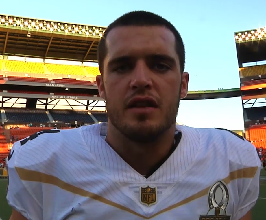 Oakland Raiders quarterback Derek Carr before 2016 Pro Bowl